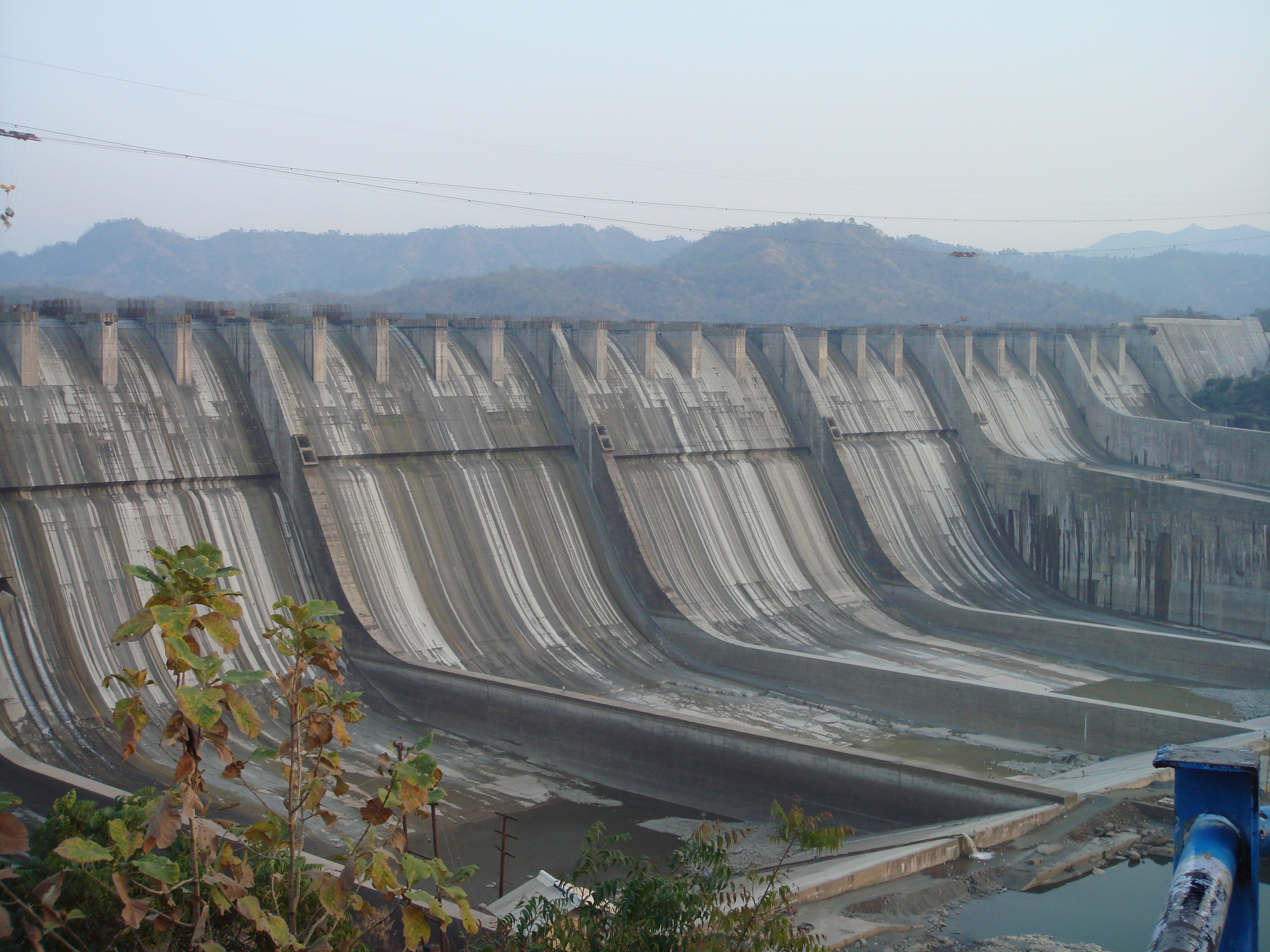 A photograph of the Sardar Sarovar Dam on the River Narmada, India, showing the principal spillway and construction underway for increasing the height from 110.64 metres to 121.92 as per clearance granted in March 2006.